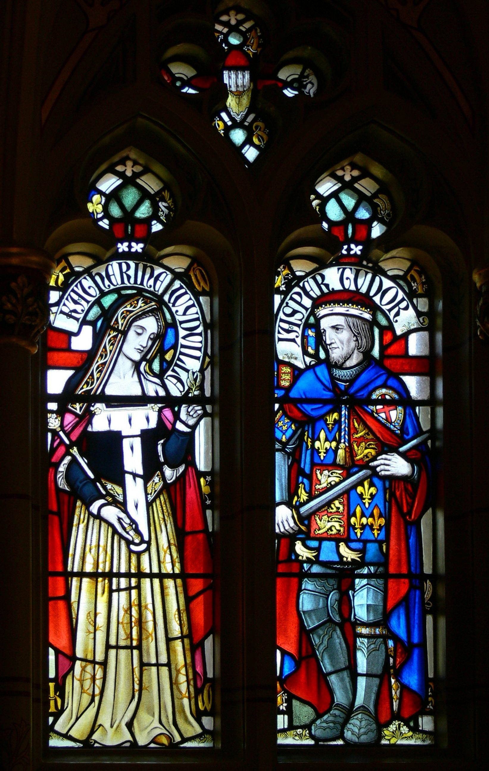 Cardiff Castle ( Wales ). Entrance hall to castle apartments: Gothic revival stained glass windows showing Jasper Tudor and Catherine Woodville.